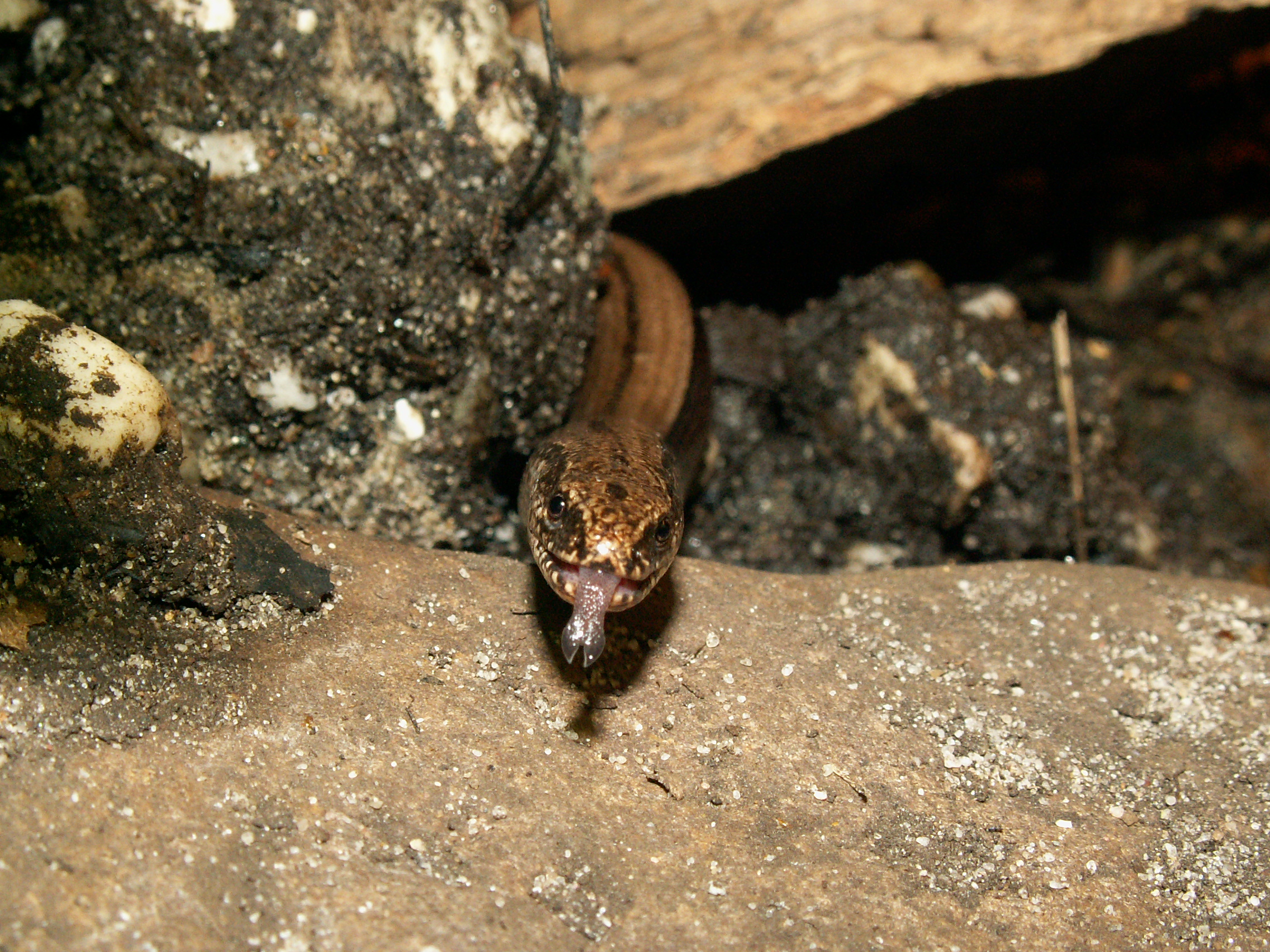 Slow worm Anguis fragilis with protruding tongue. The slow worm has to open its mouth a litte to make room for the tongue. Snakes can keep their mouth closed due to a smal slit.